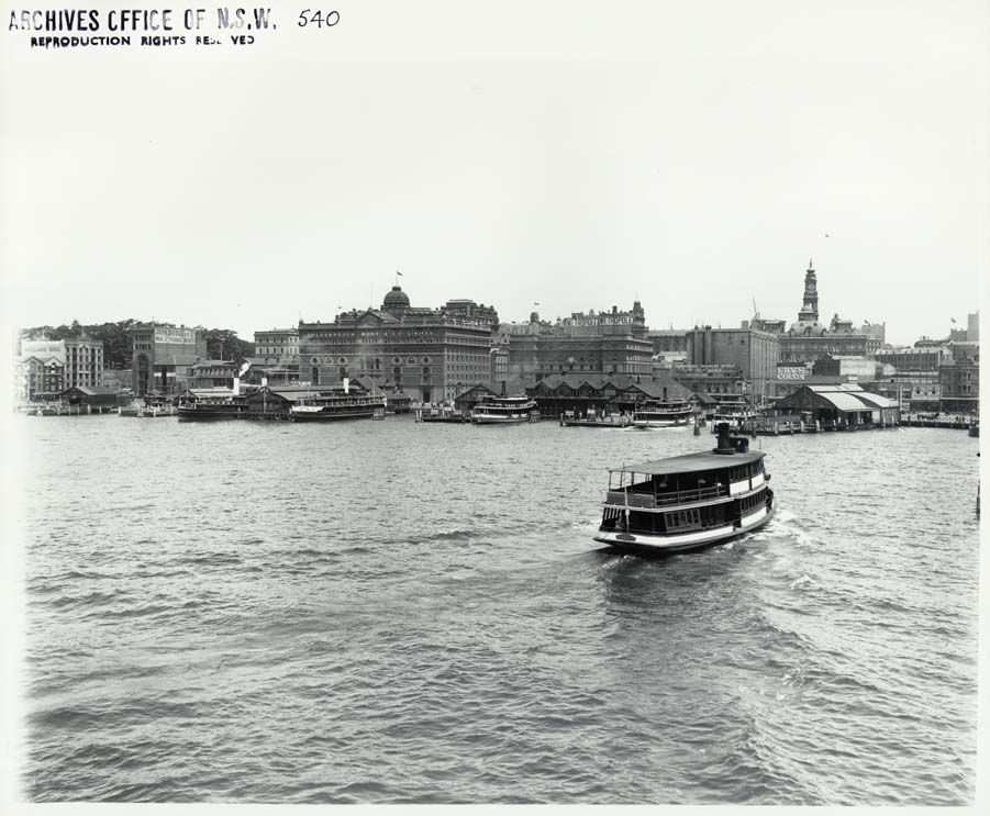 Title: View looking south towards Circular Quay showing ferries and wharves, Sydney (NSW) [SHAMROCK ferry in the right foreground; at rear, from the left are: Manly ferry BRIGHTON (2 funnels) and KURING-GAI. Next is Sydney ferry KAREELA and another unidentified ferry]. Dated: earlier than 01/01/1916 Digital ID: 4481_a026_000495 Rights: We'd love to hear from you if you use our photos/documents. Many other photos in our collection are available to view and browse on our website using Photo Investigator.